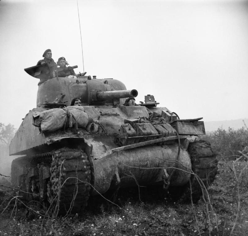 IWM caption : A Sherman tank of 50th Royal Tank Regiment near Caldari, Italy.